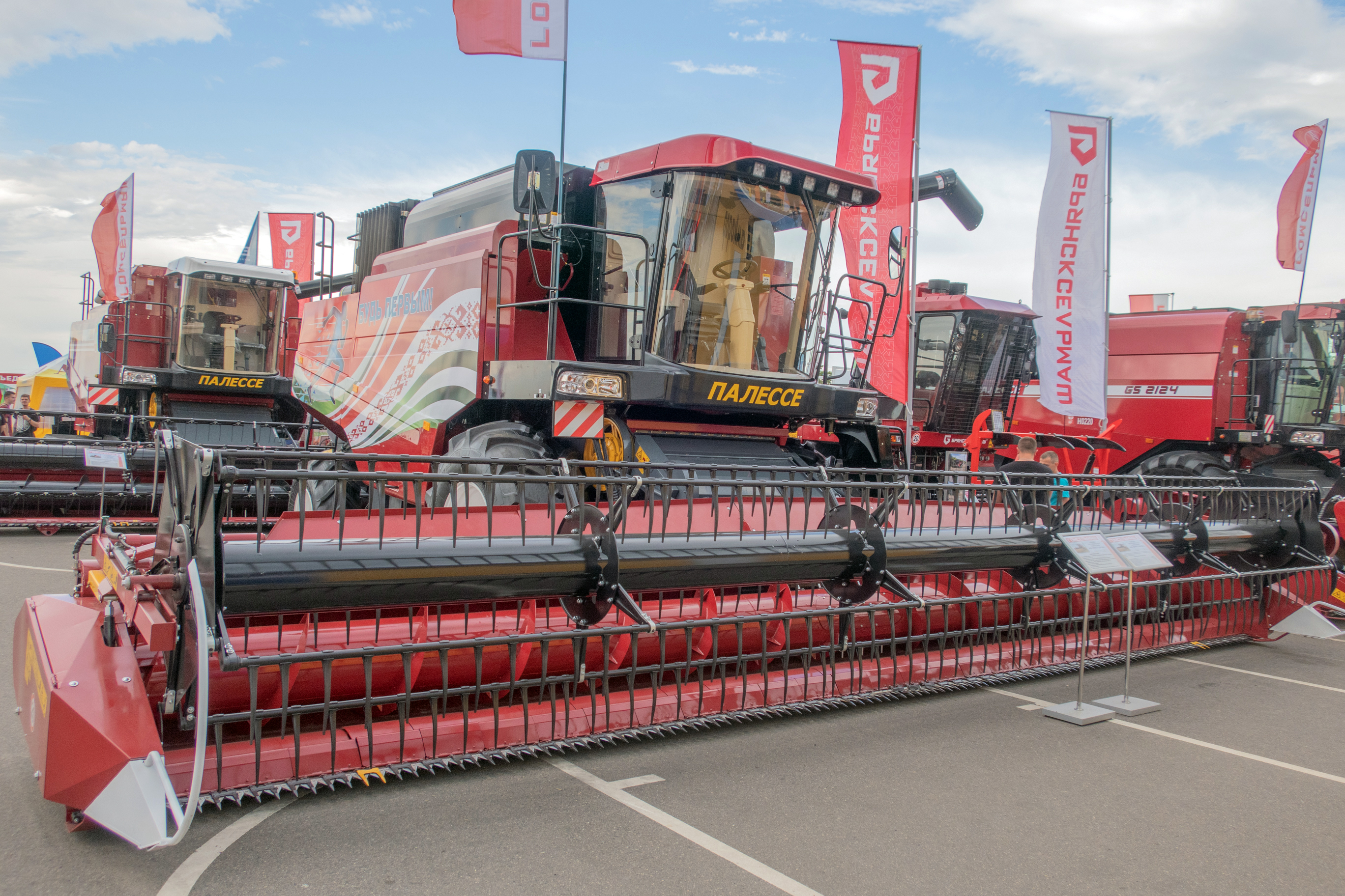 Grain combine harvester Palesse GS 12A1 by Gomselmash factory. Photo taken at Belagro-2019 exhibition (Minsk district, Belarus)